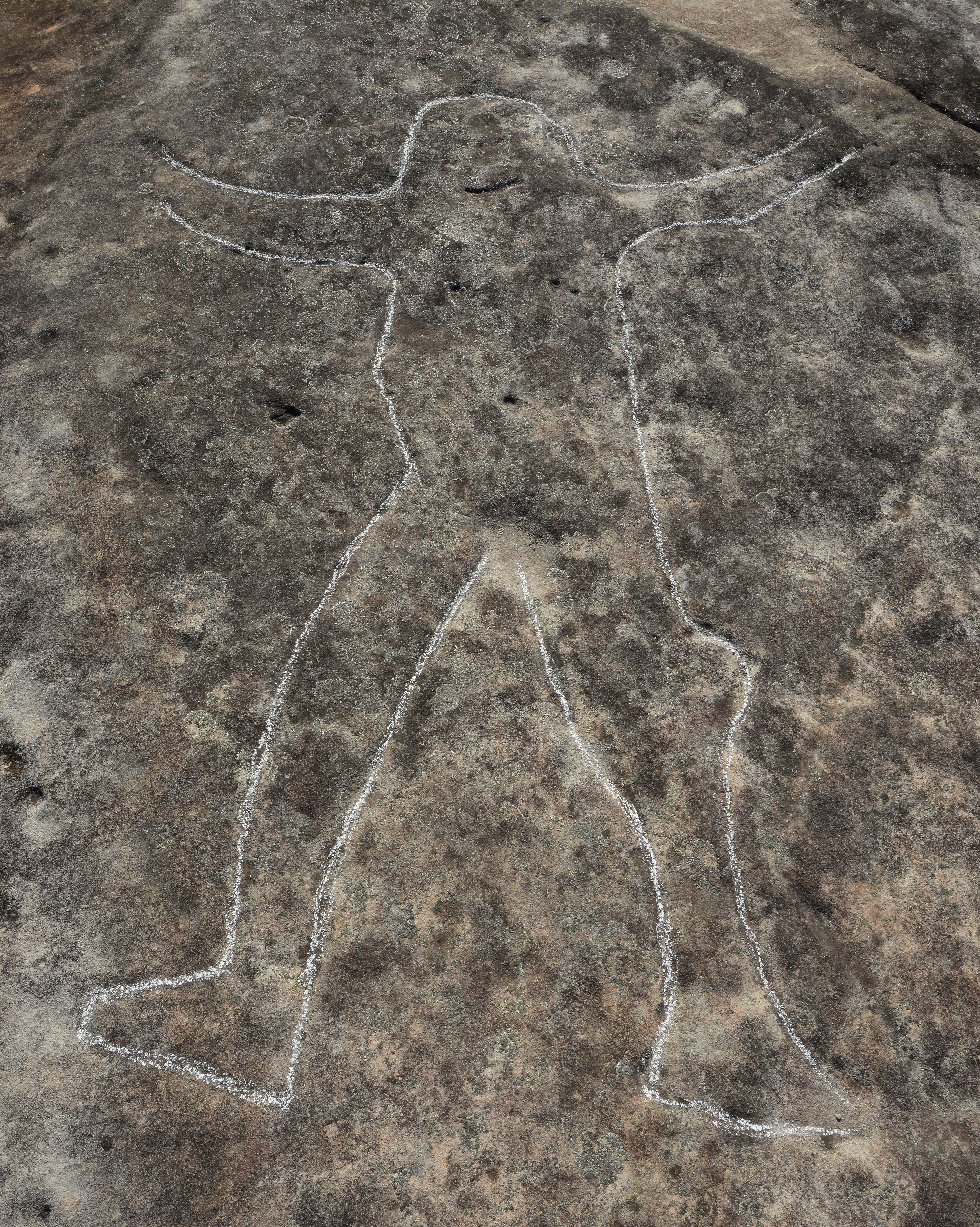 Figure of man, Gumbooya Reserve, Allambie Heights, Sydney (outlined with chalk for greater definition)